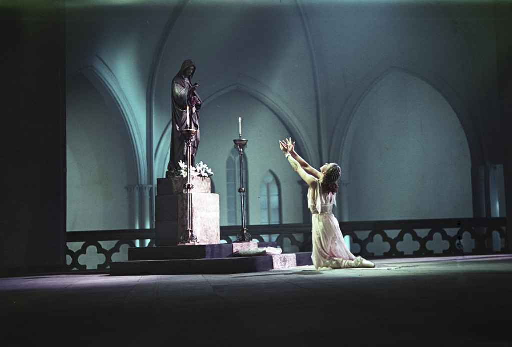 “Ballet dancers Galina Ulanova performing on stage”. People's Artist of the USSR Galina Ulanova (b. 1909) as Juliet in a scene from Sergei Prokofiev's ballet Romeo and Juliet staged at the State Academic Bolshoi Theater of the USSR in 1952.